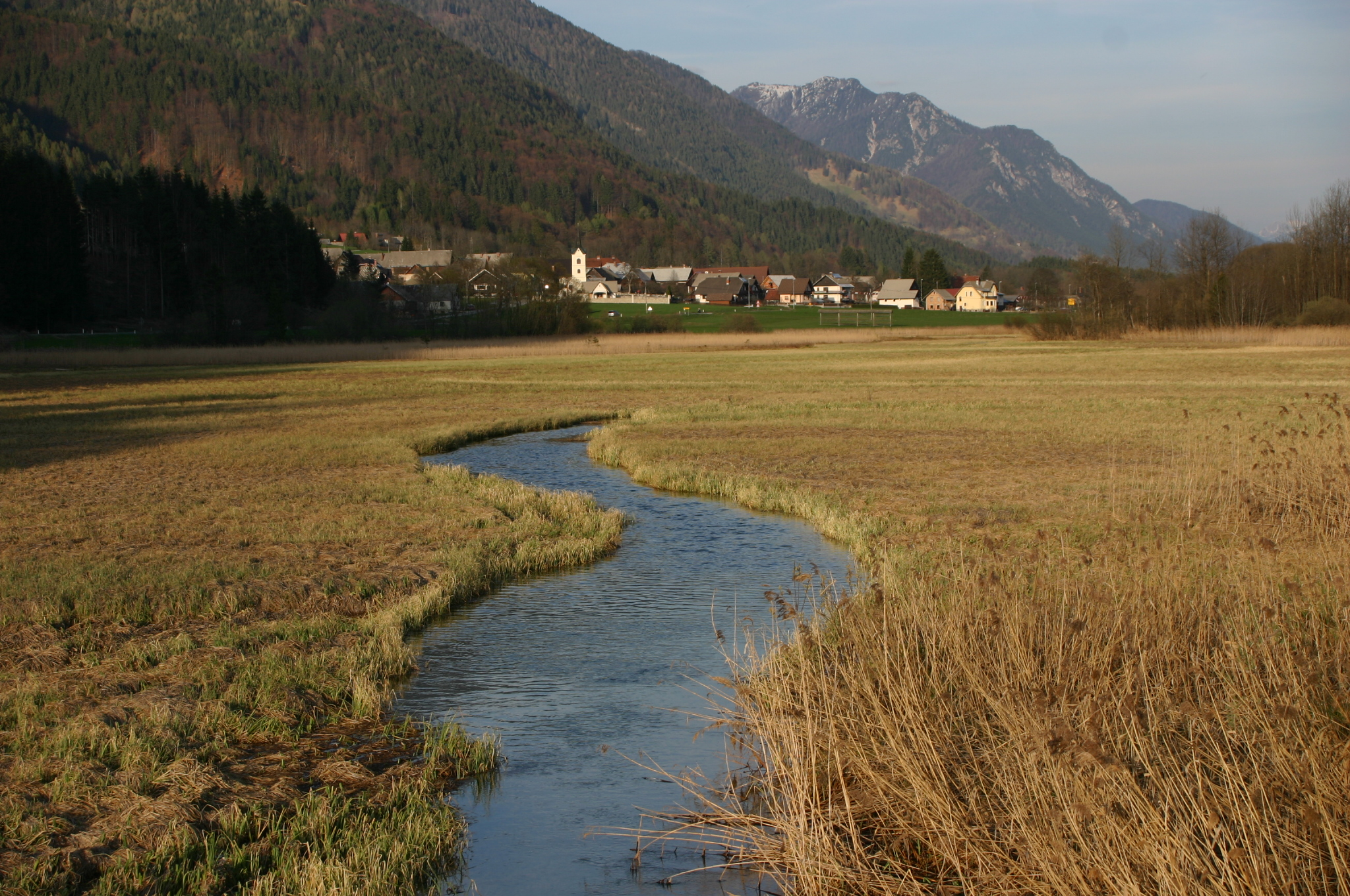 Sava Dolinka flowing out of Zelenci wetland